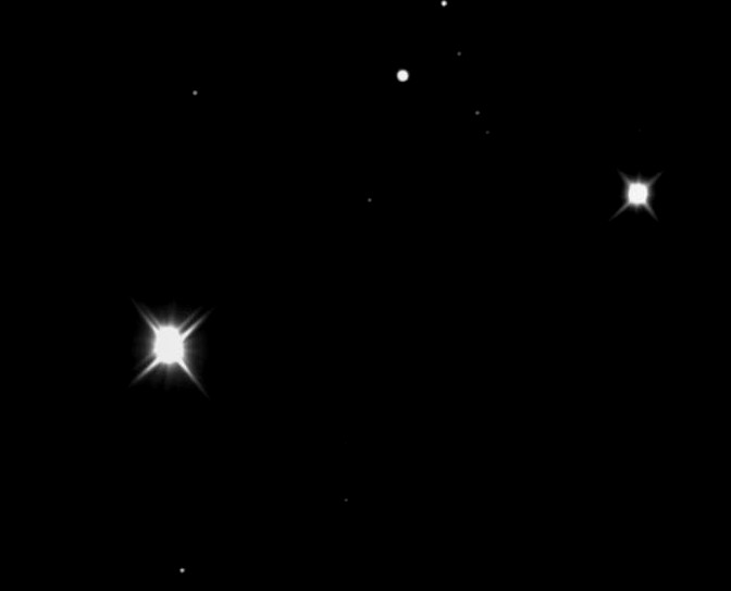 Mizar and Alcor (ζ Ursae Maioris) stars in Big Dipper